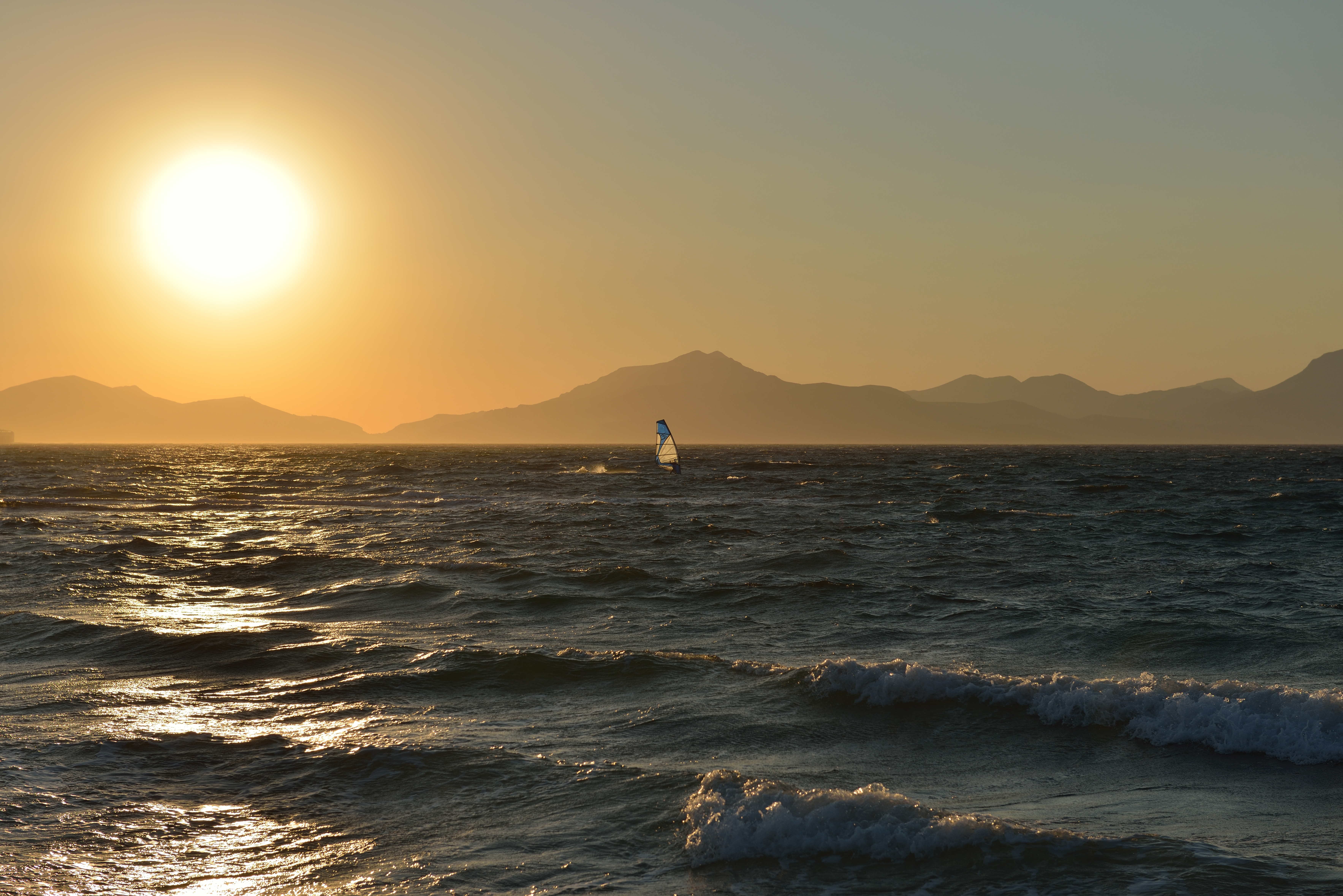 Sunset at Marmari, Island Kos, in backgreound the Island Kalymnos